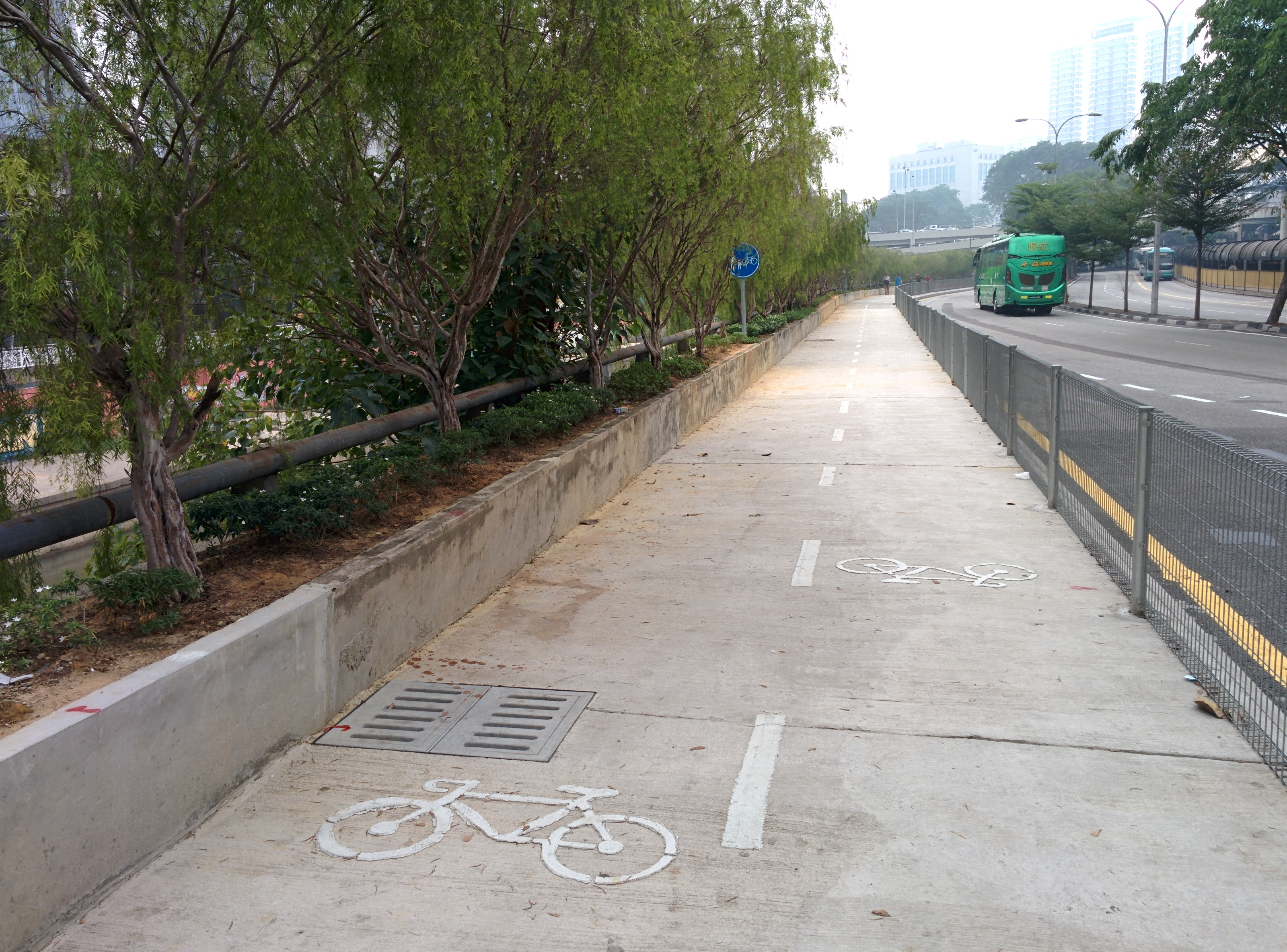 The Southwest Dedicated Bicycle Highway viewed from north, heading towards to Mid Valley Megamall in the southern area